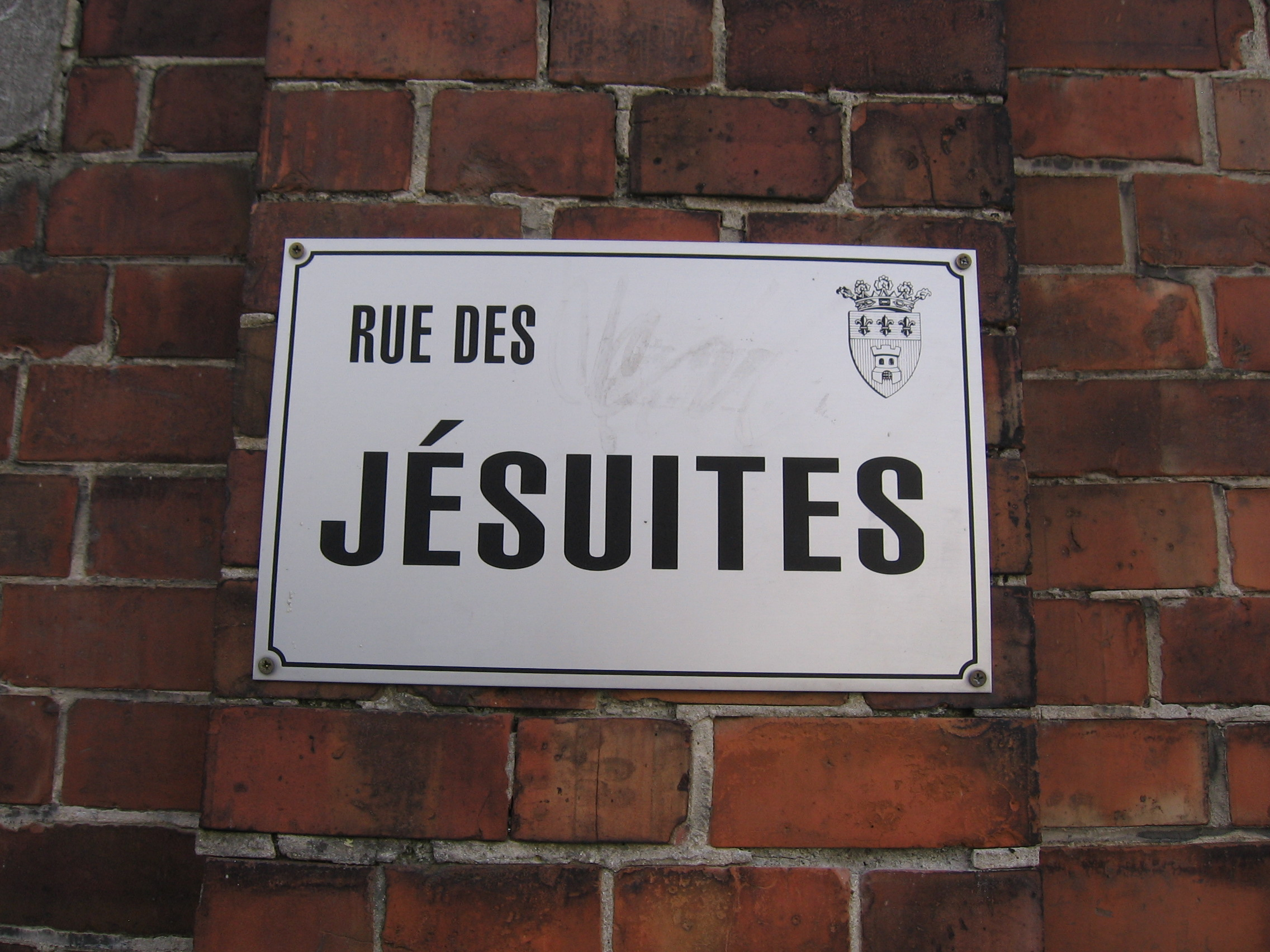 Street sign in Tournai (Belgium) : 'Rue des jésuites' where the Jesuit church is.